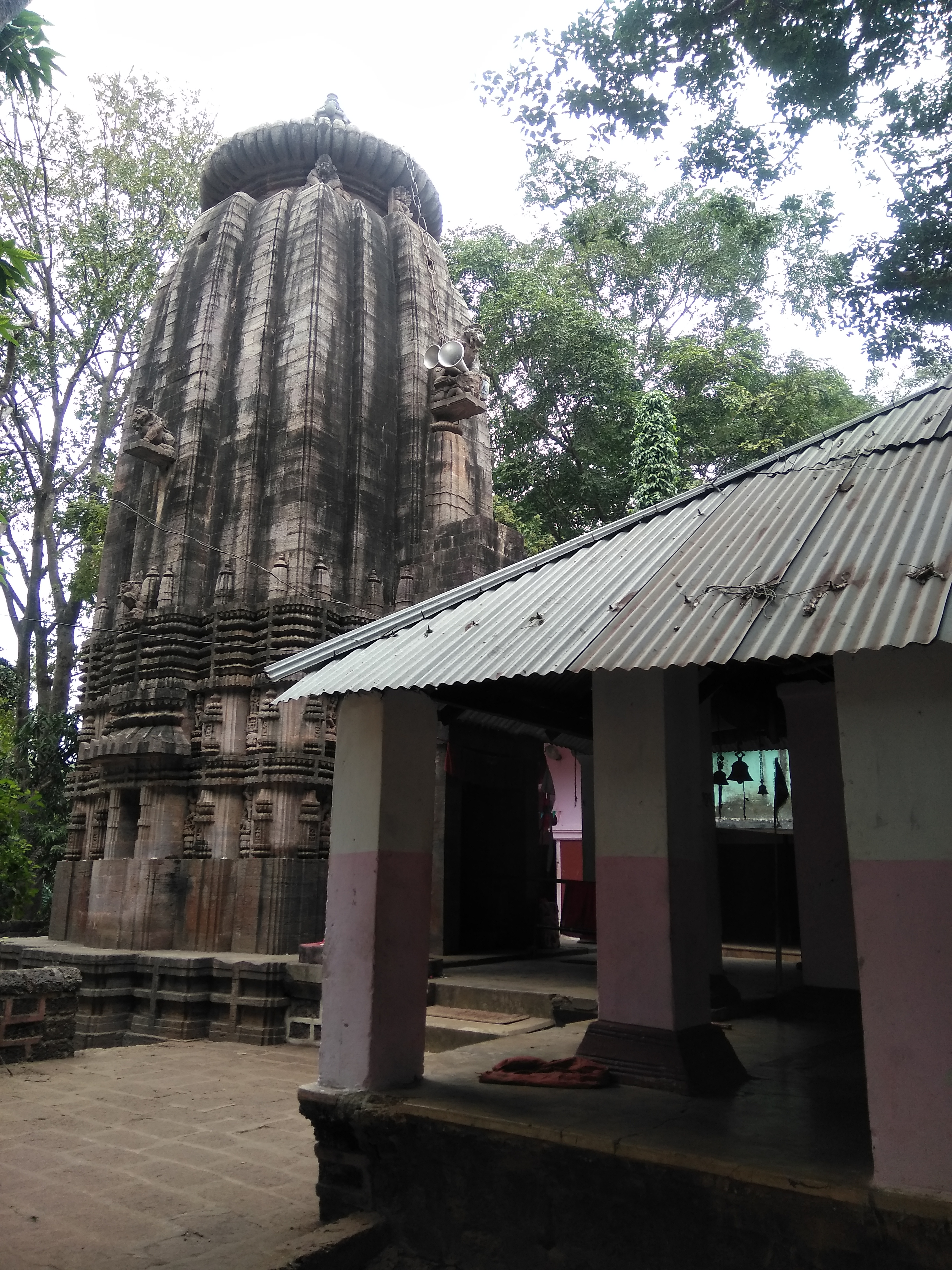 Annakoteswar Temple